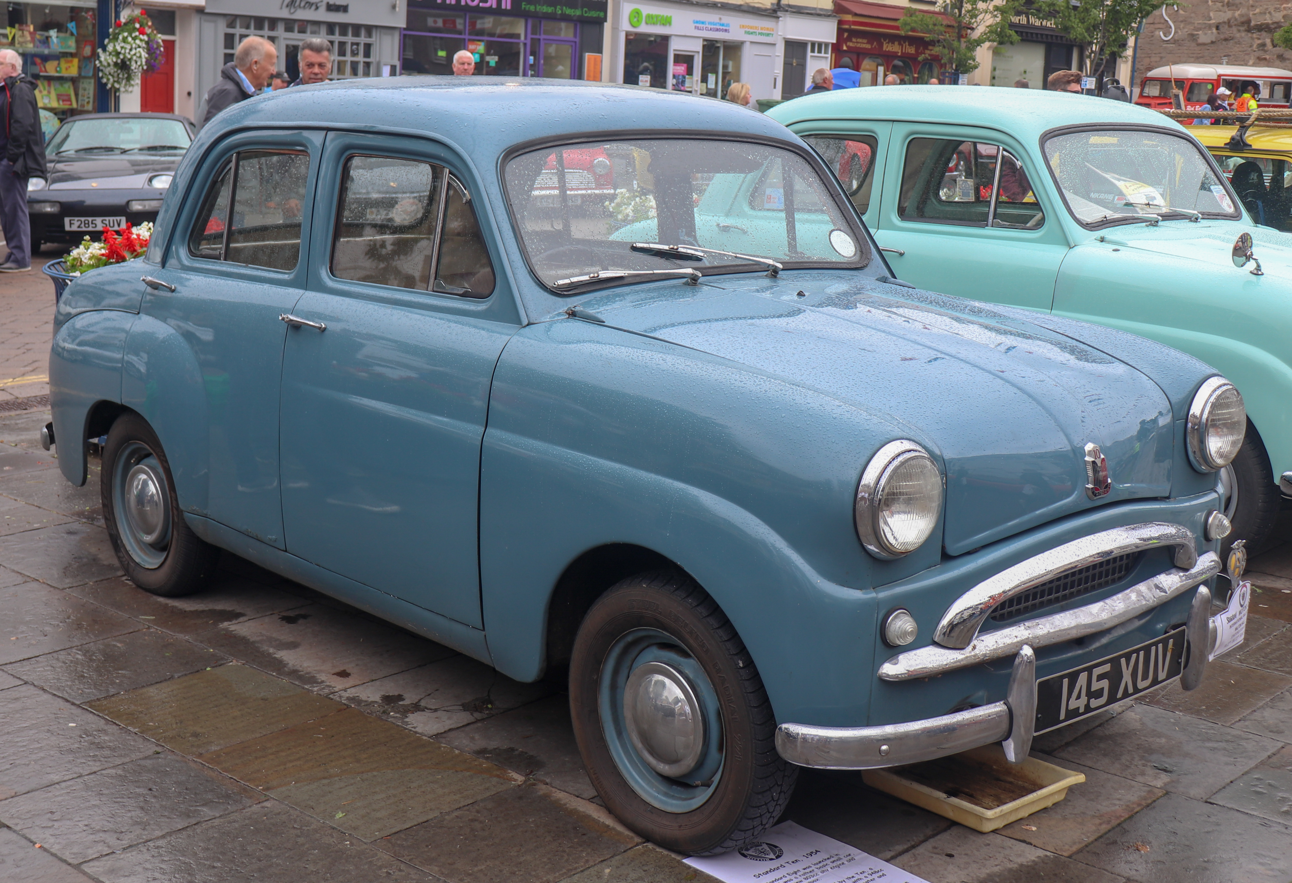 1954 Standard Ten Taken at the 2018 Warwick Classic Car Show